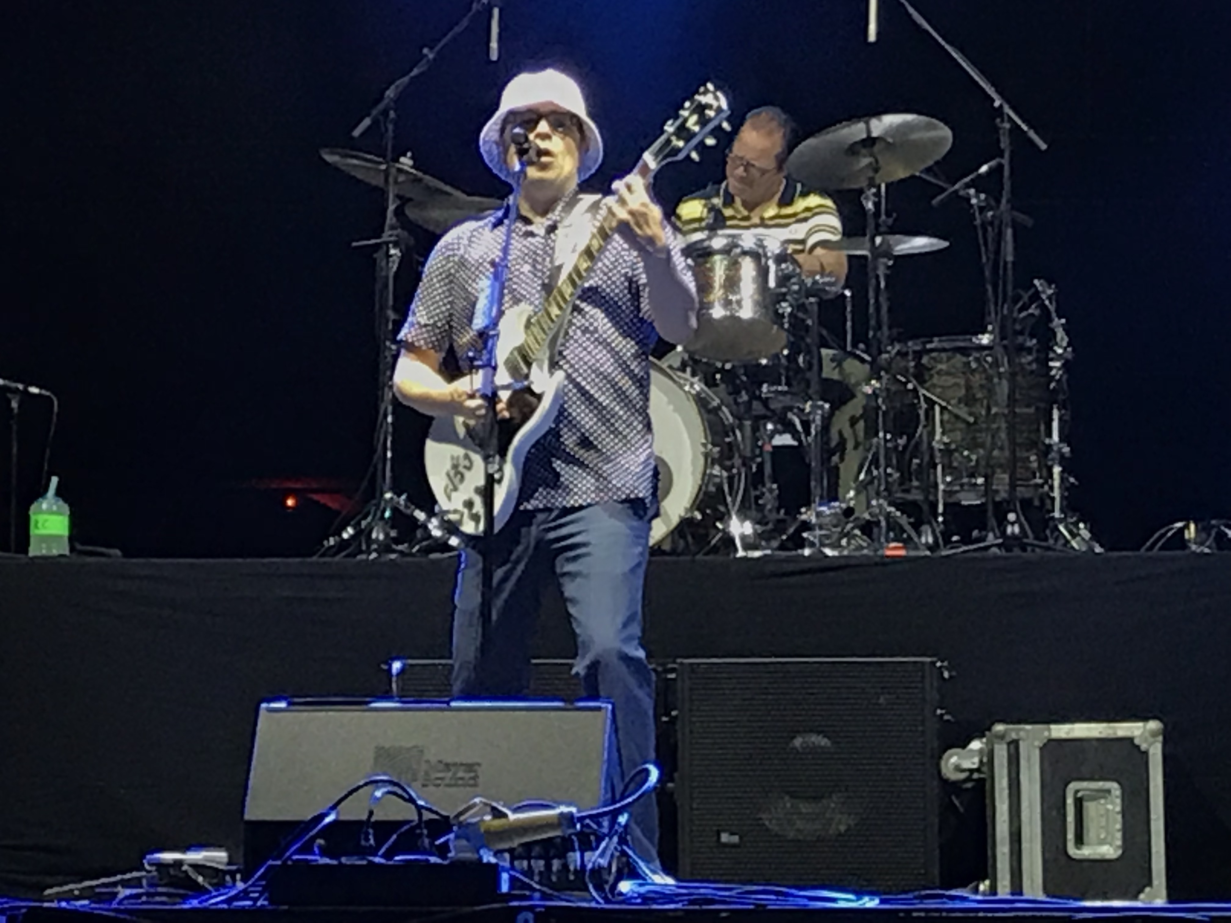 Rivers Cuomo of the band Weezer performing at Musikfest in Bethlehem, Pennsylvania on August 5, 2019.